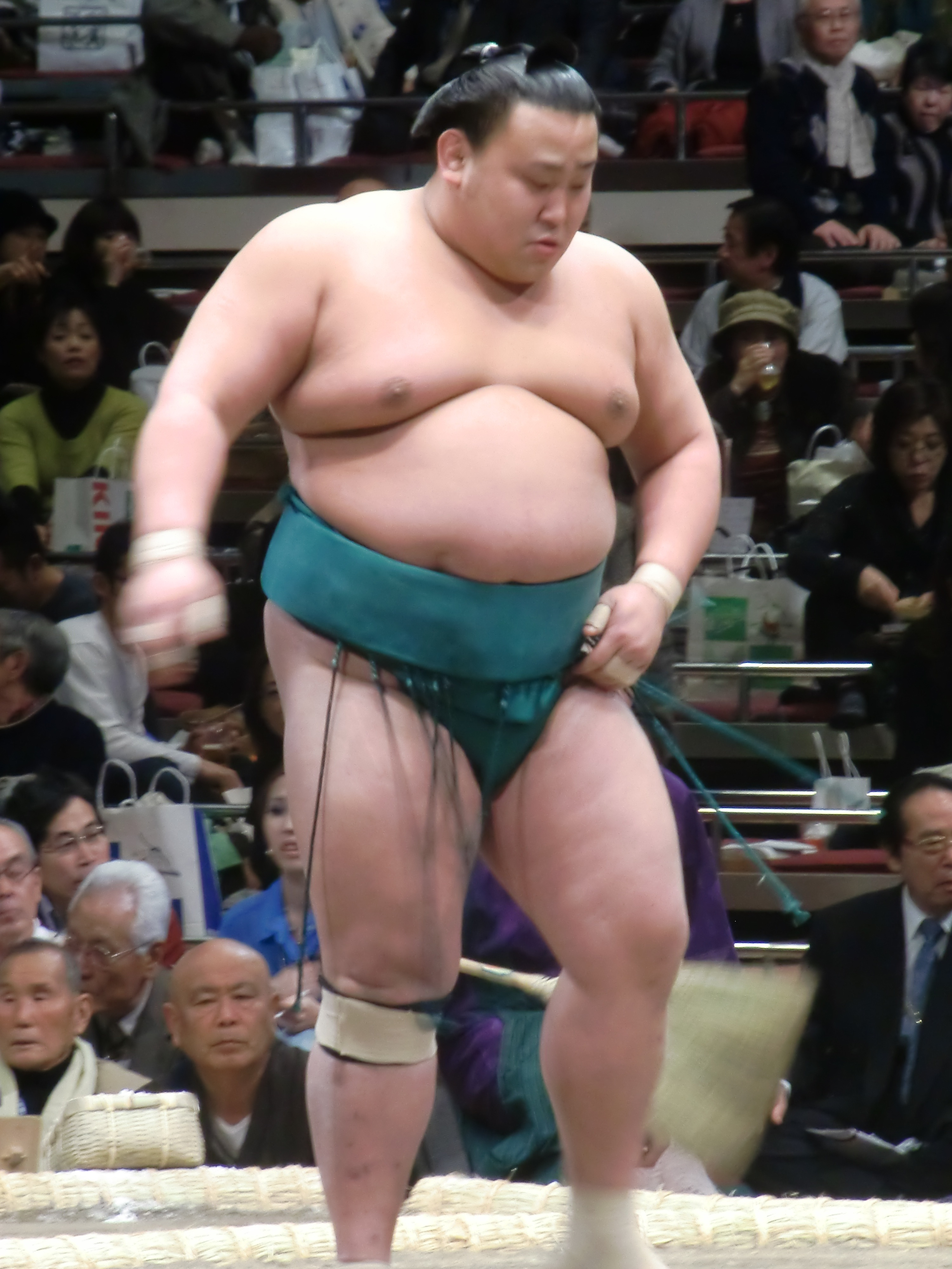 taken at 2012 Jan tournament